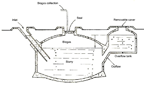 Chinese biogas chamber